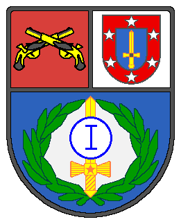 Badge of Command of Military Police - Parana / Brazil.